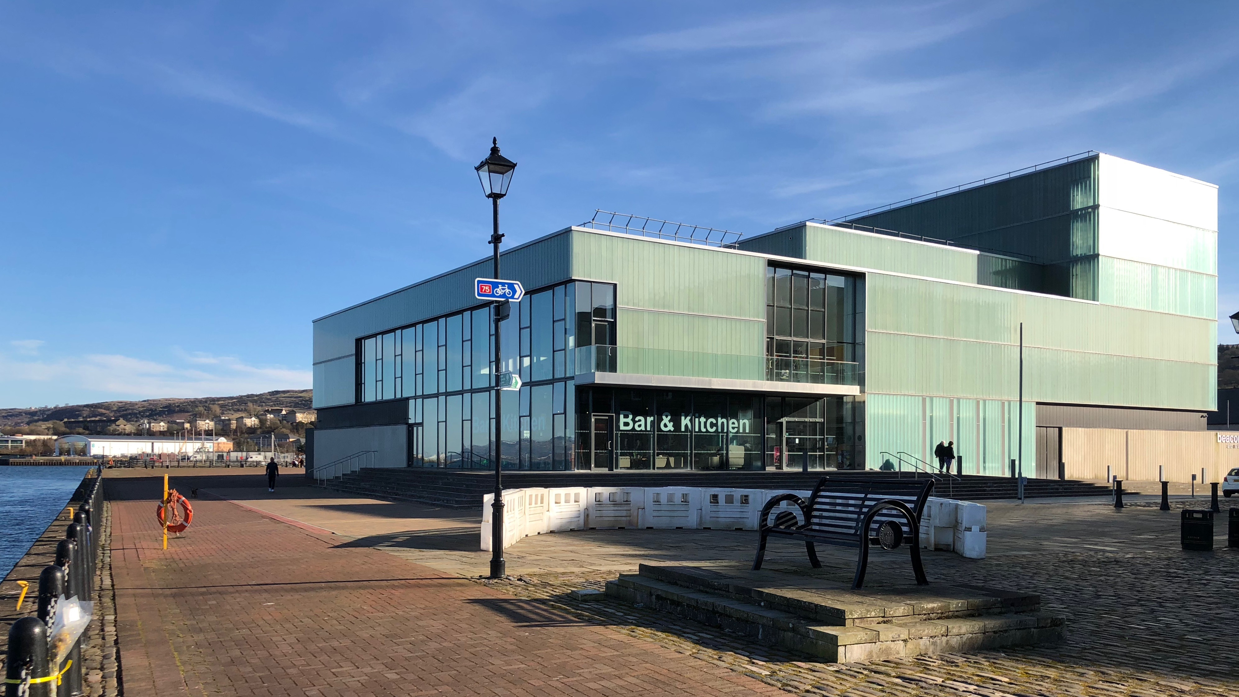 Close view of the Beacon Arts Centre from Customhouse Quay on the waterfront of Greenock in Scotland